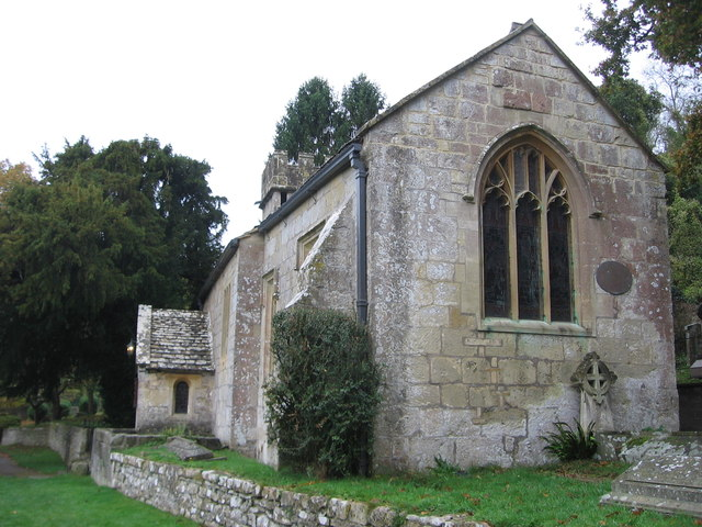 Parish church of the Blesséd Virgin Mary, Charlcombe, Somerset, seen from the southeast